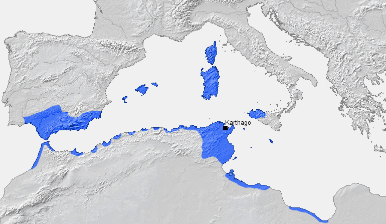 Location of Carthage and Carthaginian influence sphere before the First Punic War (264 BC)